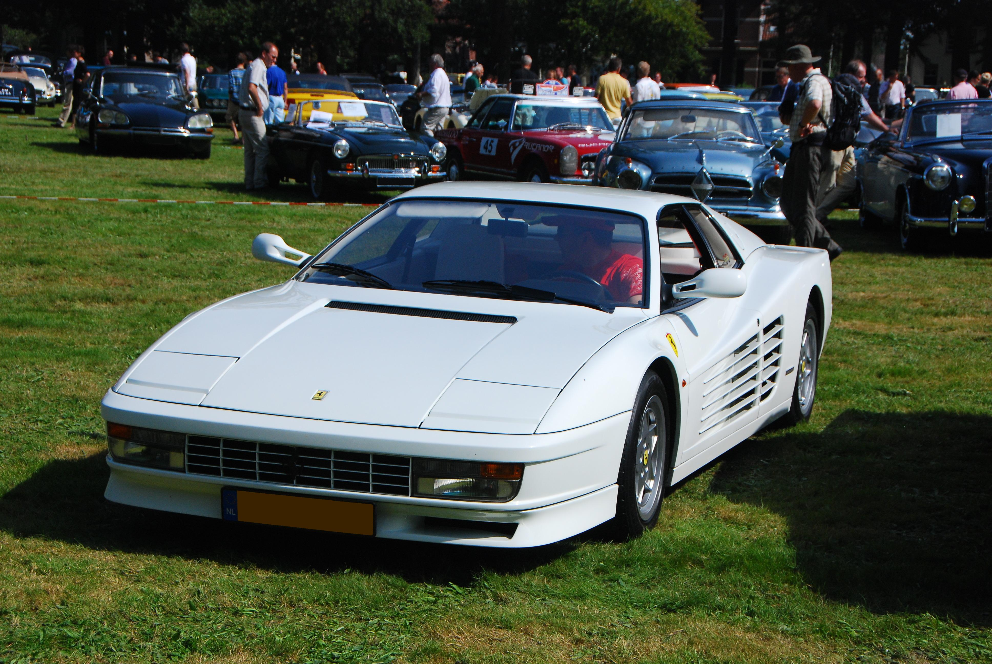 Ferrari Testarossa seen during Concours d'Elegance 2008, Apeldoorn (NL)